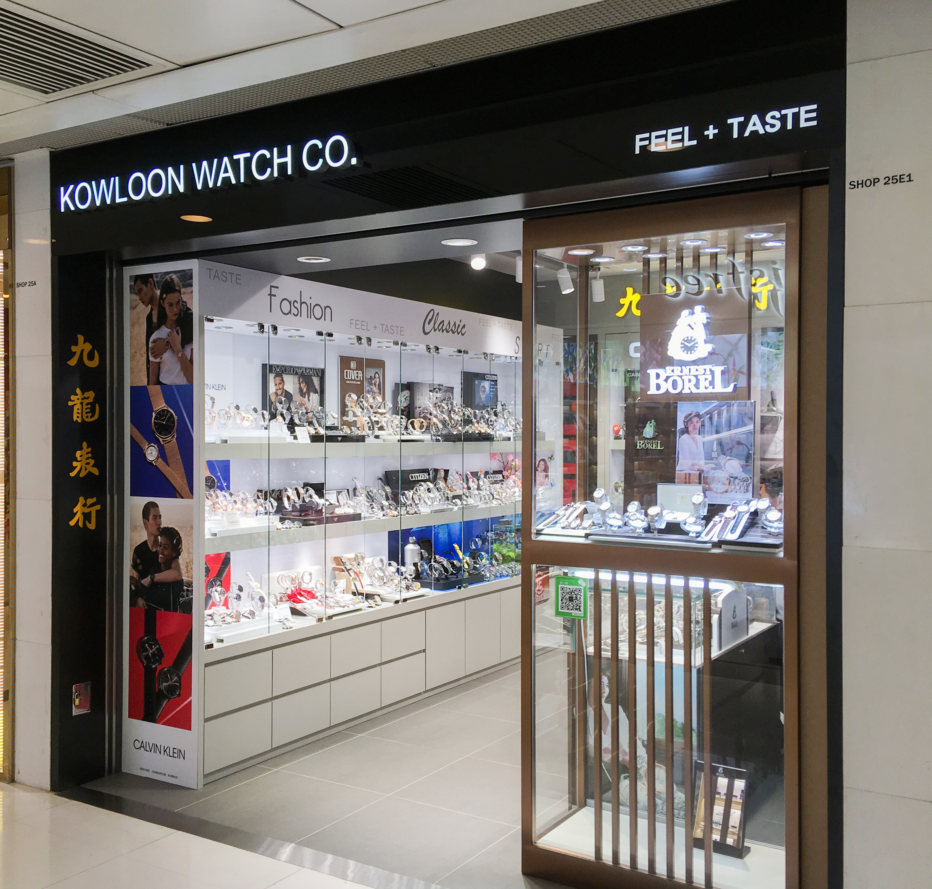 Kowloon Watch Co Shatin Plaza Store